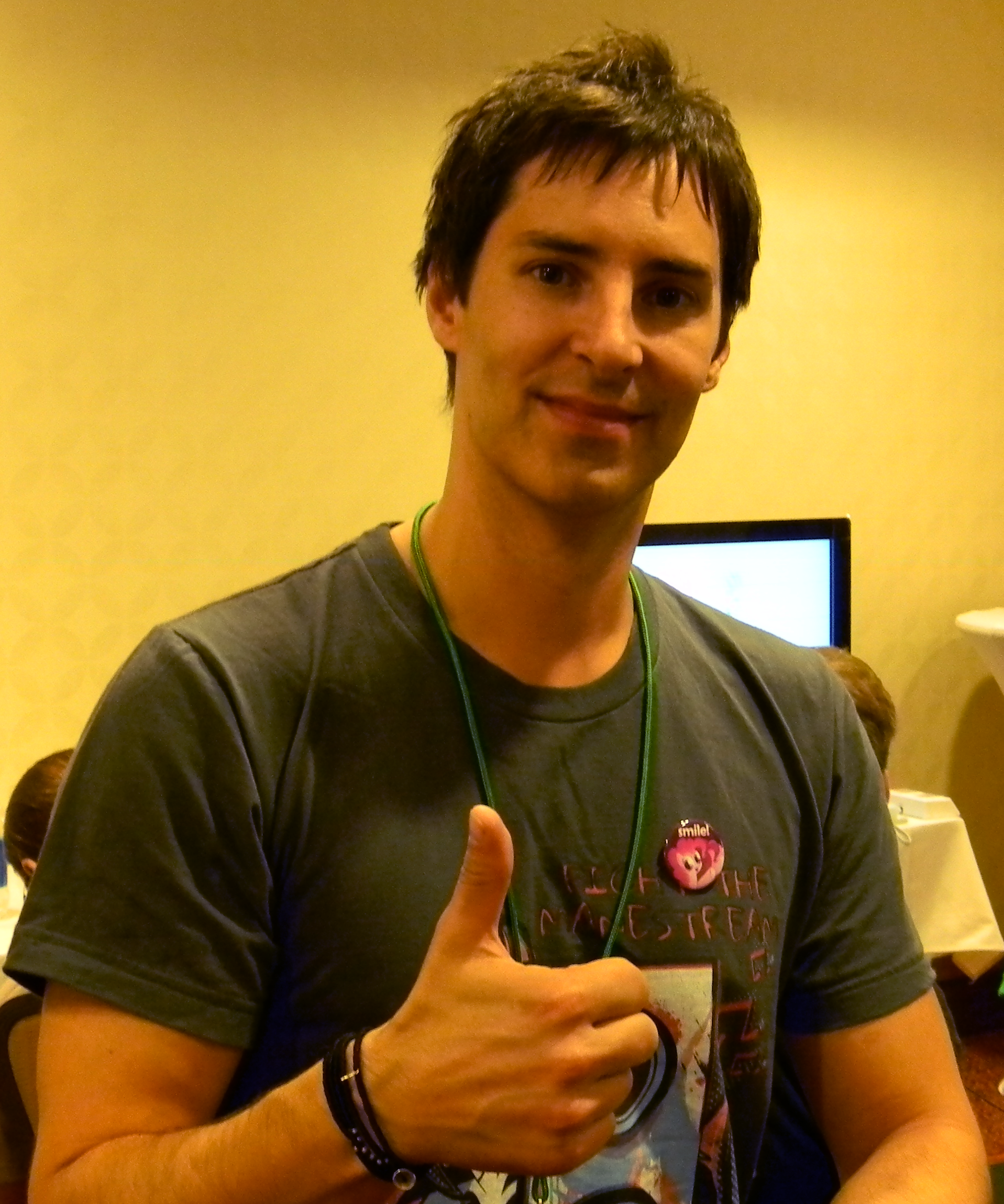 Musican Daniel Ingram at Everfree Northwest 2012 (Seattle, WA)